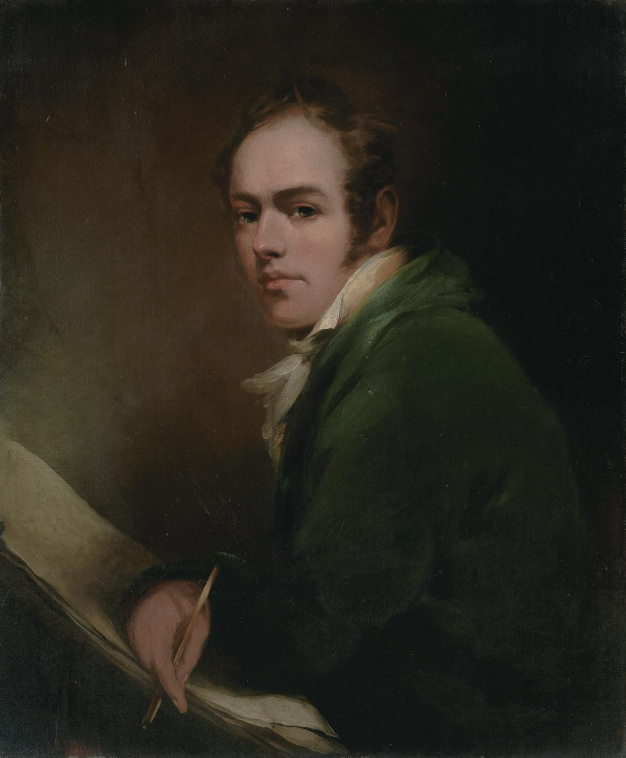 Self-Portrait c.1810 Sir Francis Legatt Chantrey 1781-1841 Presented by the Trustees of the Chantrey Bequest 1894